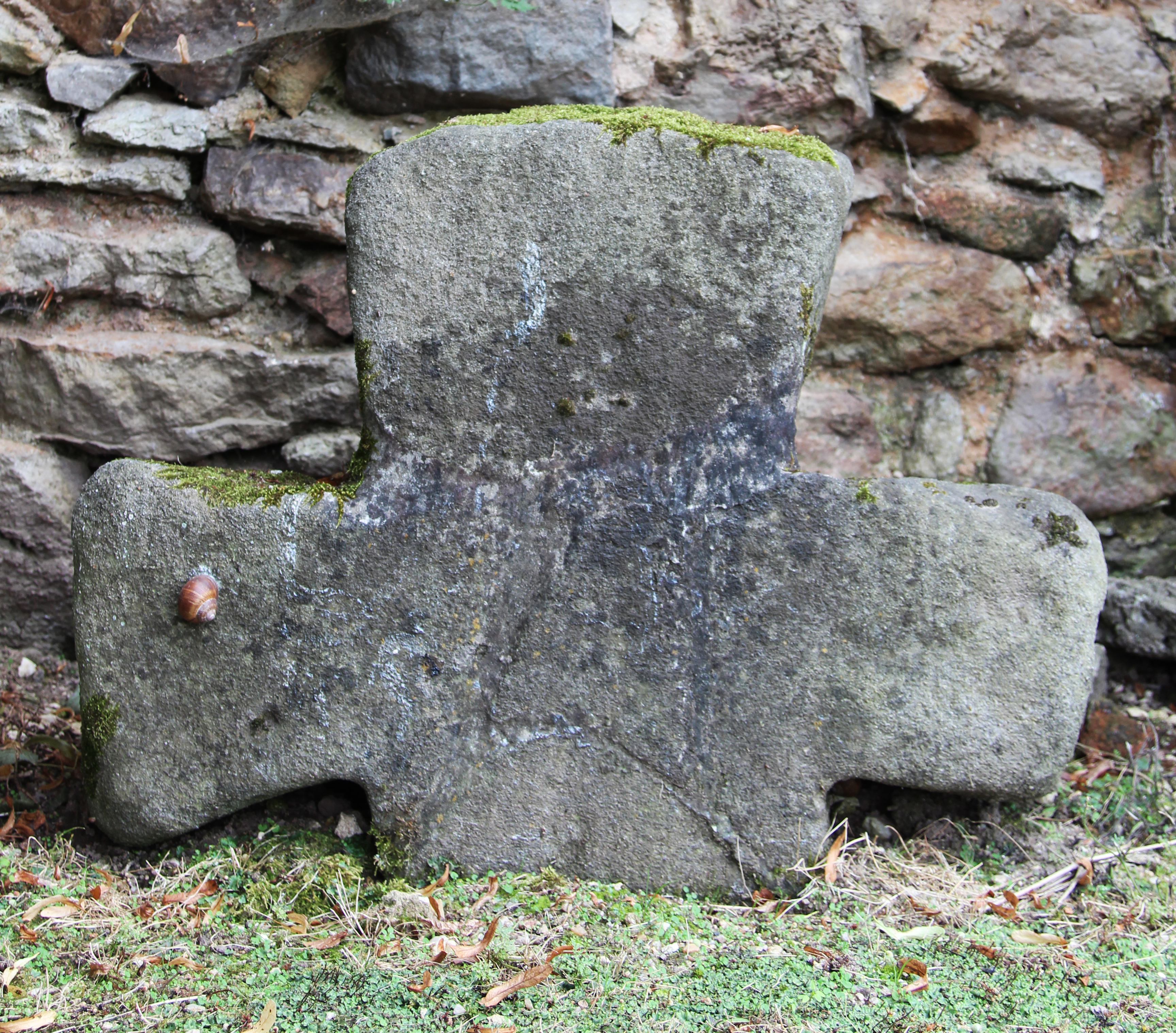 Stone cross in Mściszów